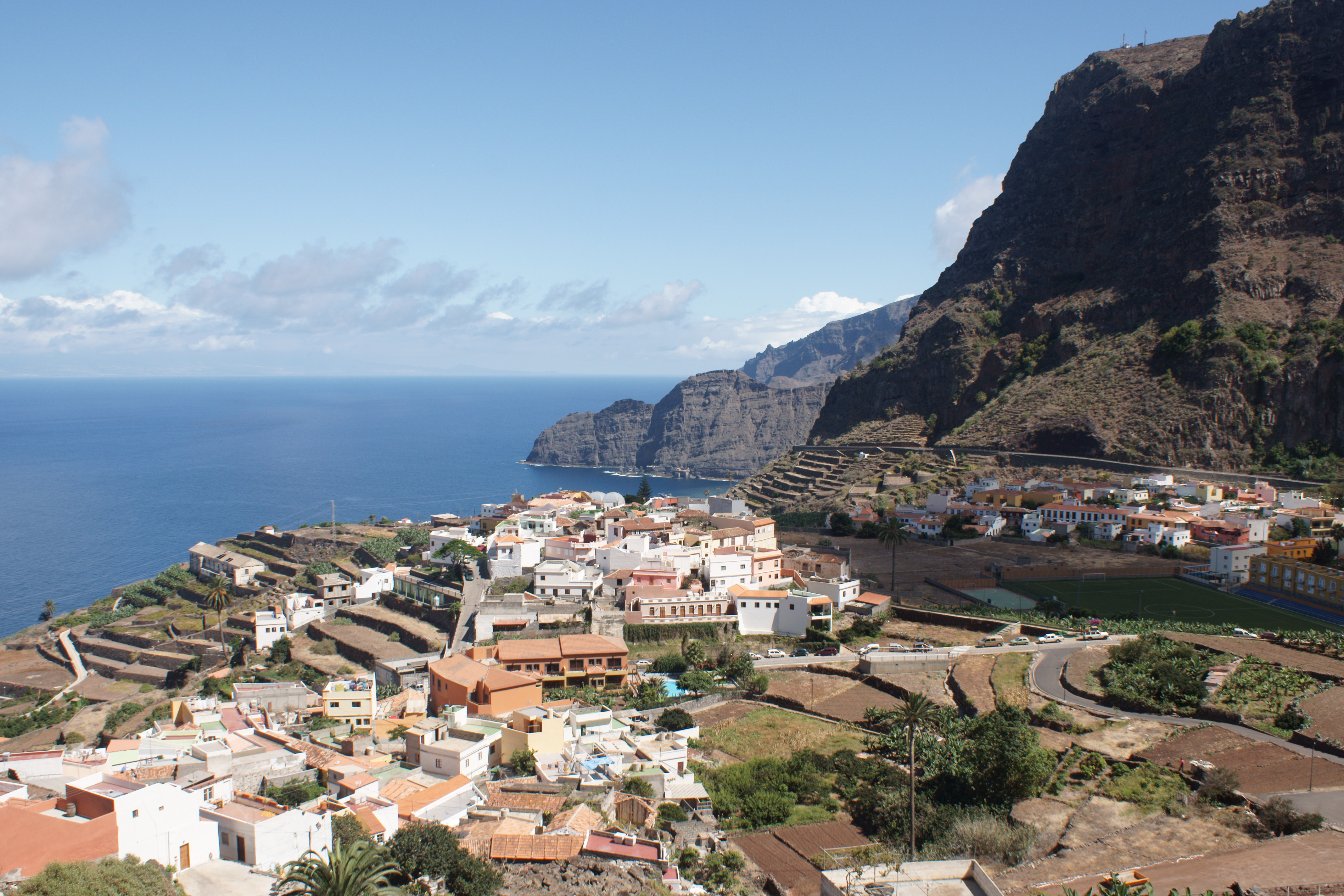 View of houses in Agulo on La Gomera